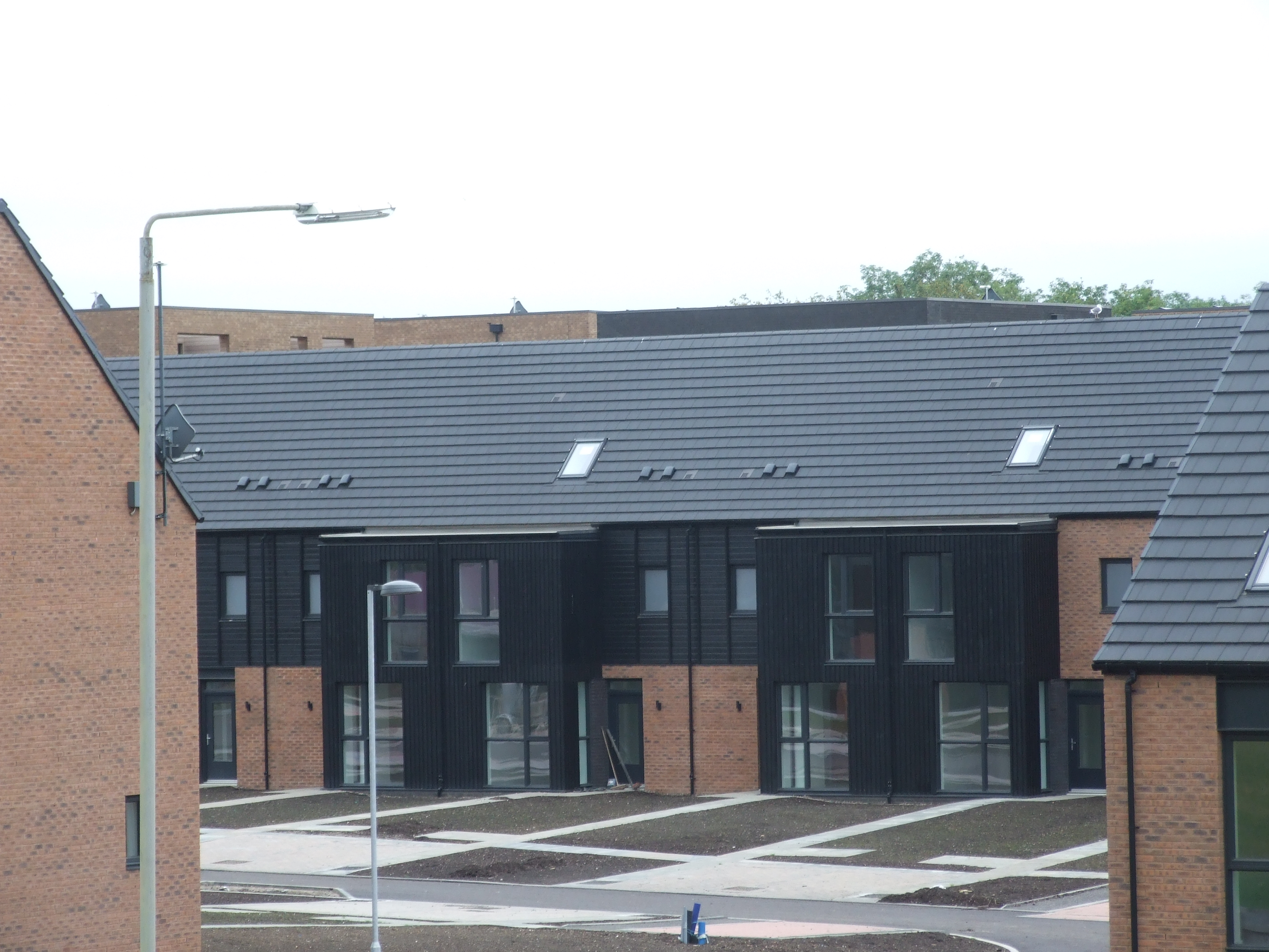 The Athletes Village for the Glasgow 2014 Commonwealth Games. Photo was taken from near the Emirates Arena, and shows terrace houses in the village, as construction of this section was nearly finished. During the games pairs of houses will have connecting doorways which will be removed after the games before the houses are sold.